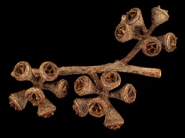 Fruit of Eucalyptus camphora subsp. camphora